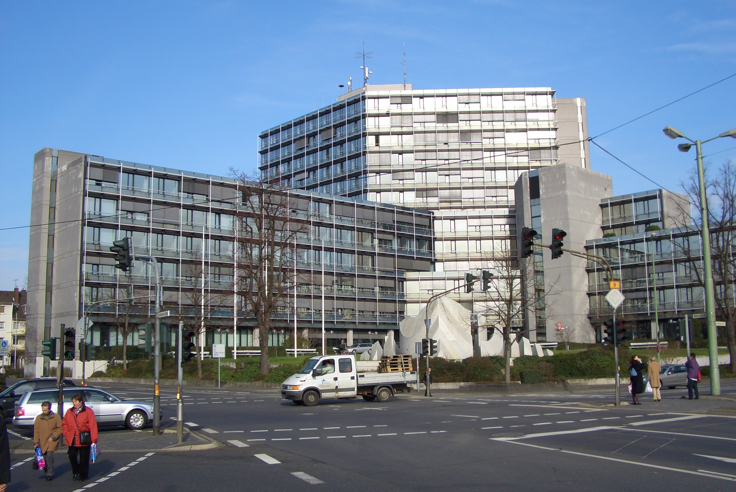 Photo of the building of the administration of district Rhein-Sieg.